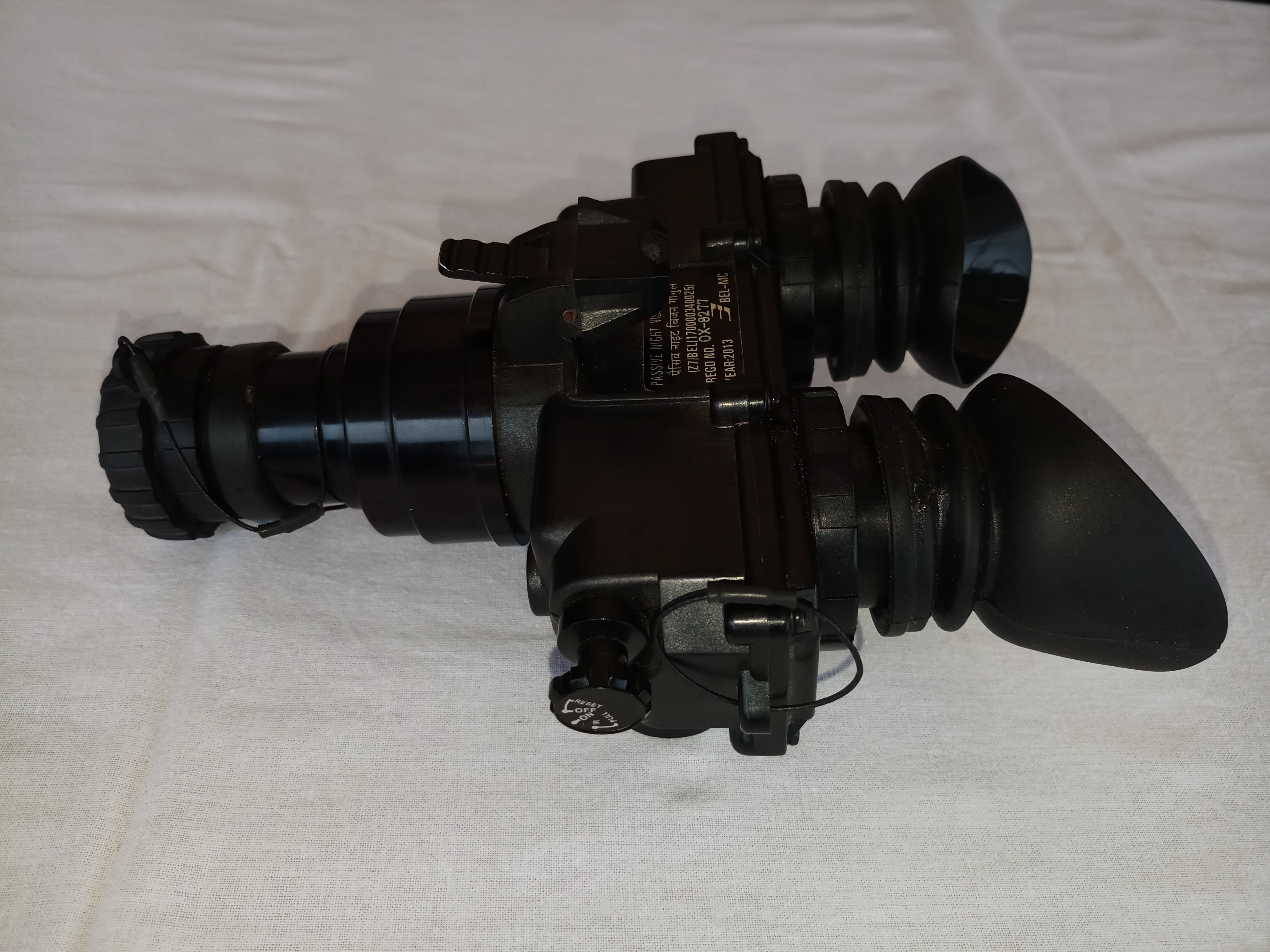 PASSIVE NIGHT VISSION GOGGLE. MAGNIFICATION 1x